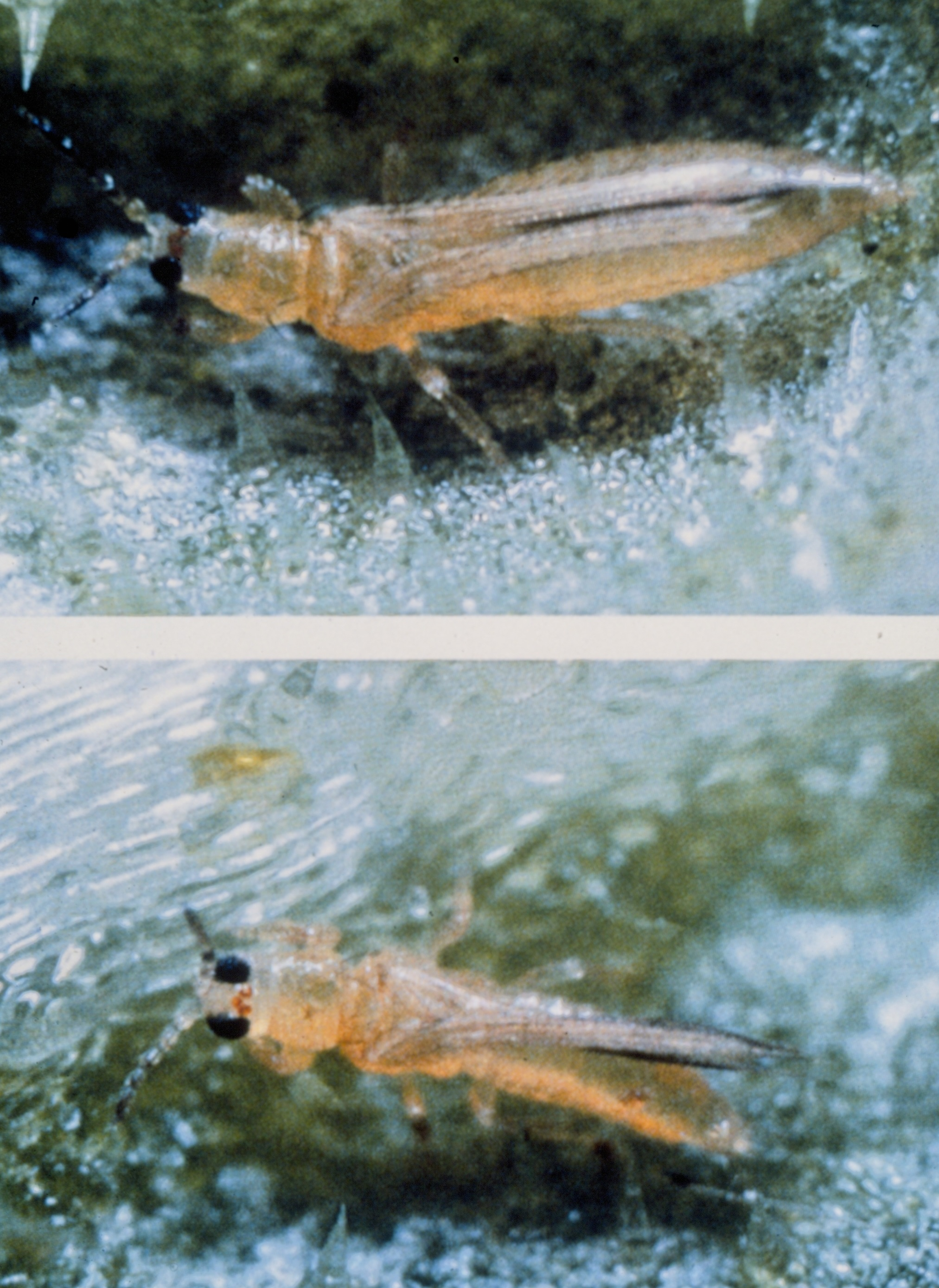 Thrips palmi, lab specimens, Florida, USA